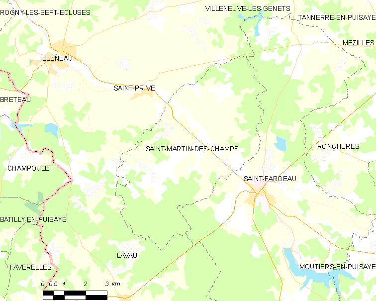 Map of French municipality Saint-Martin-des-Champs